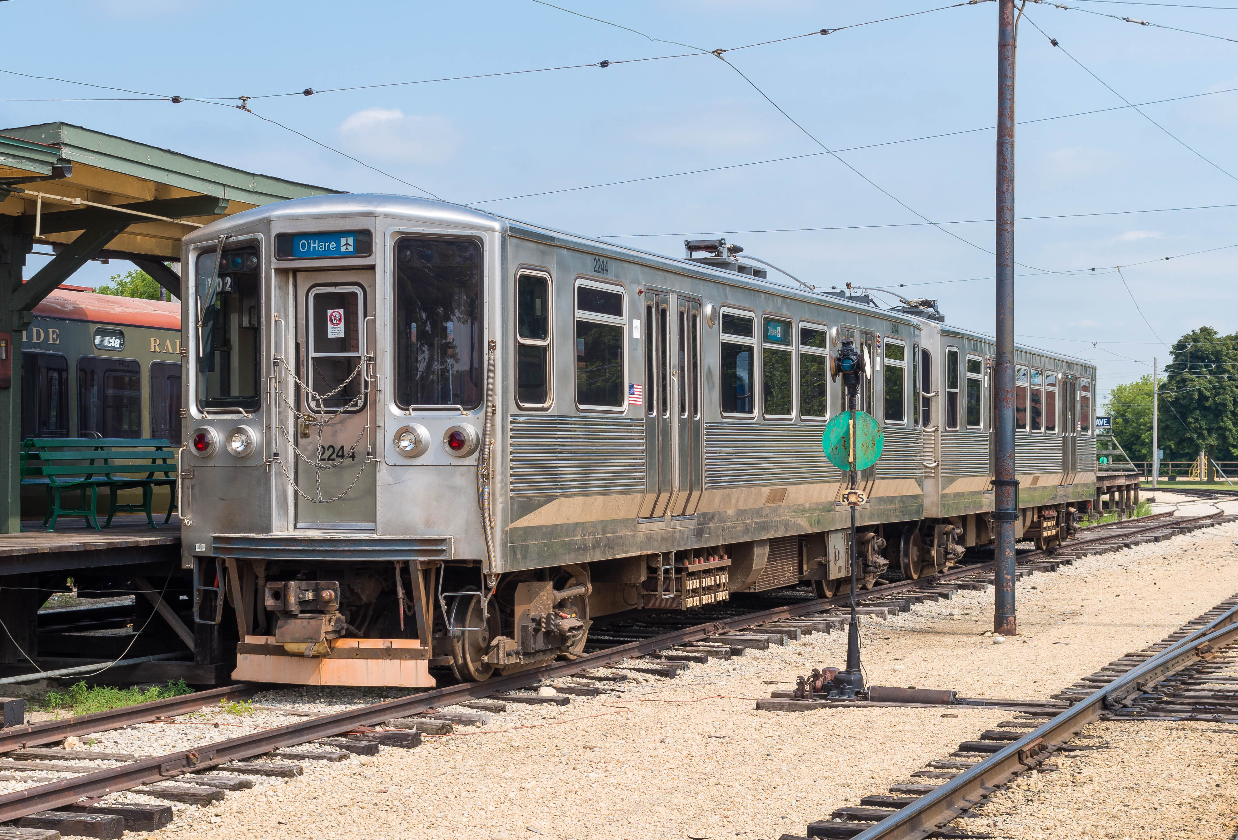 Chicago Transit Authority 2200 series car 2244 at the Illinois Railway Museum in Union, Illinois, USA.